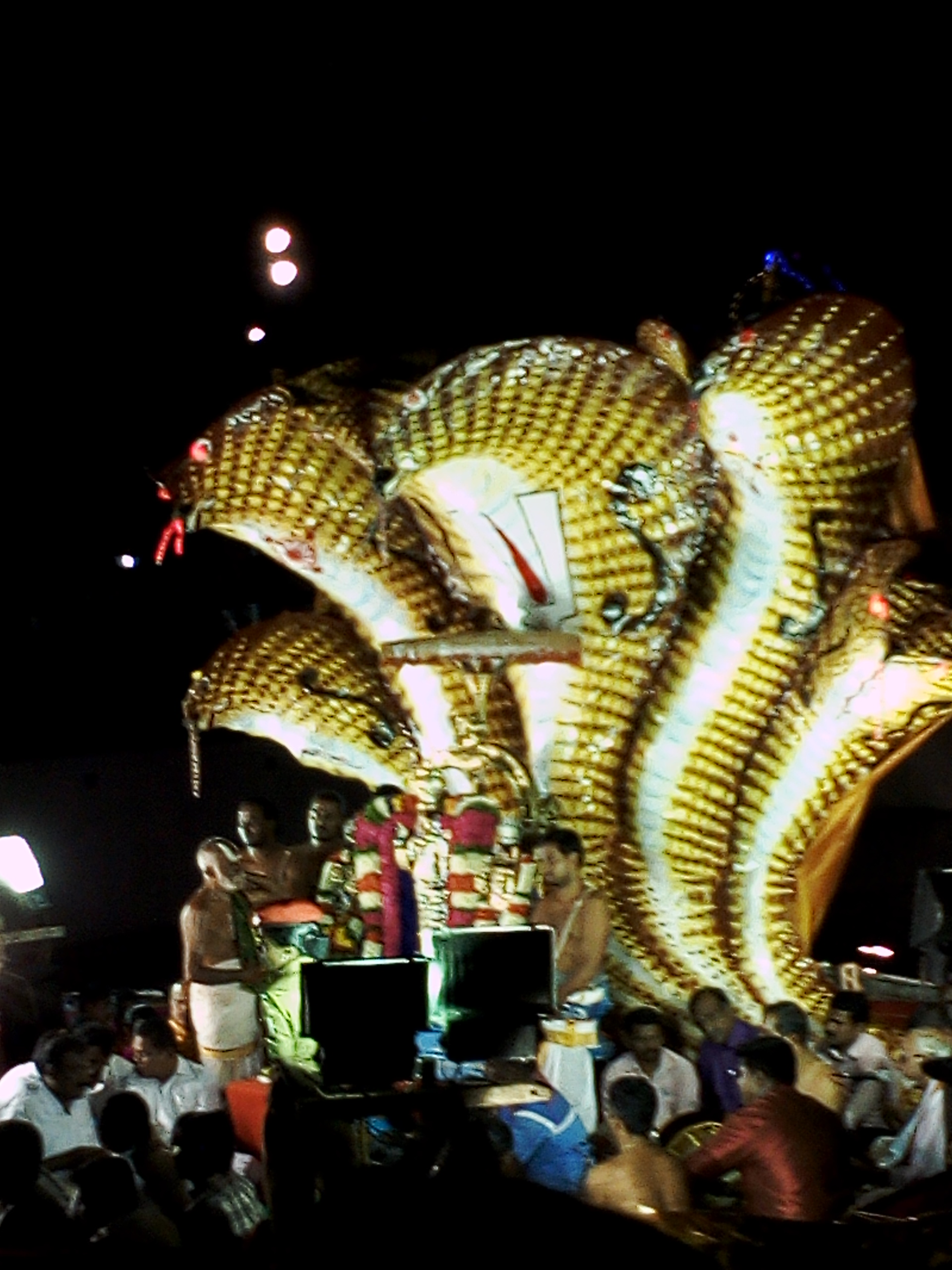 Theppam